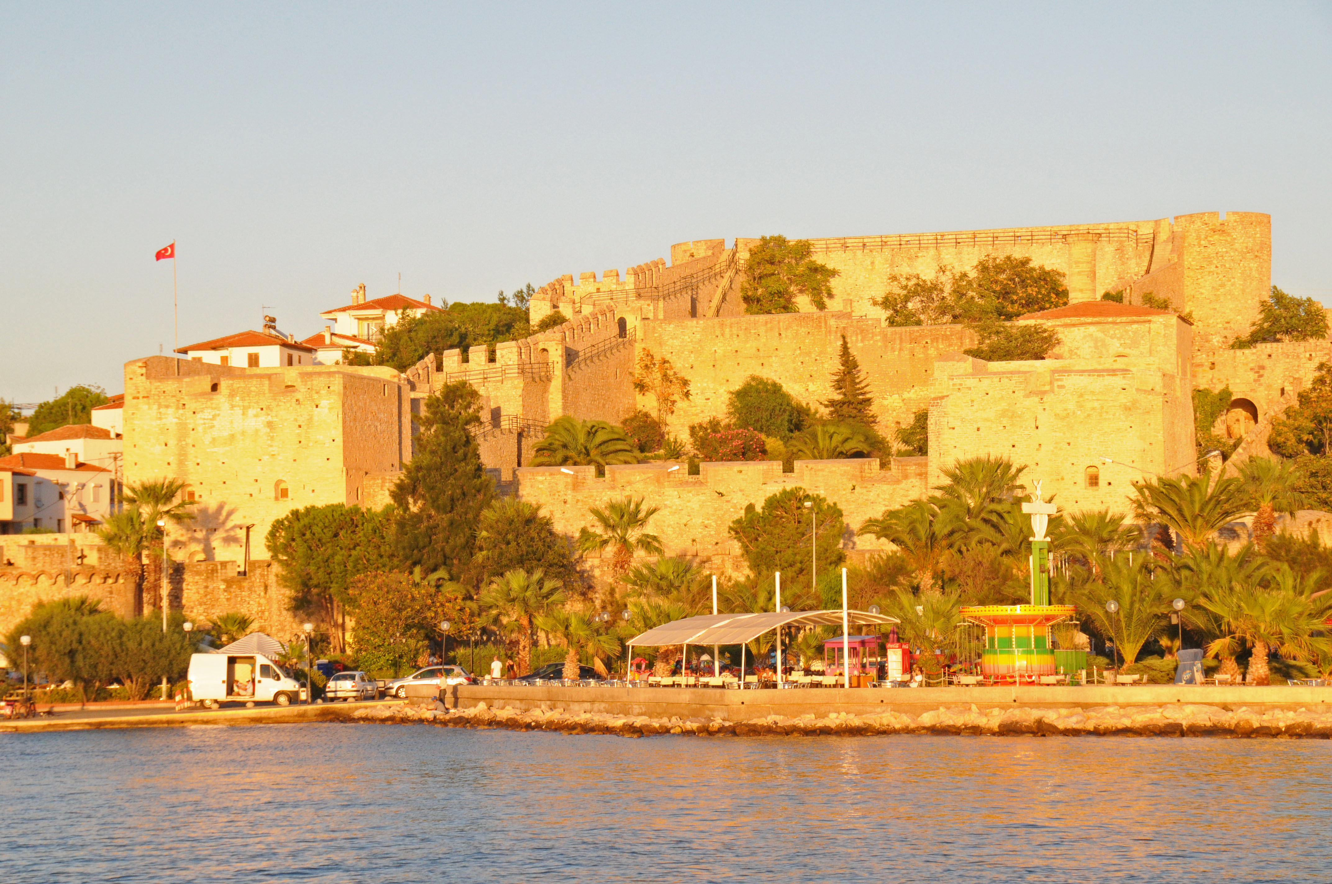 Cesme Castle, Turkey